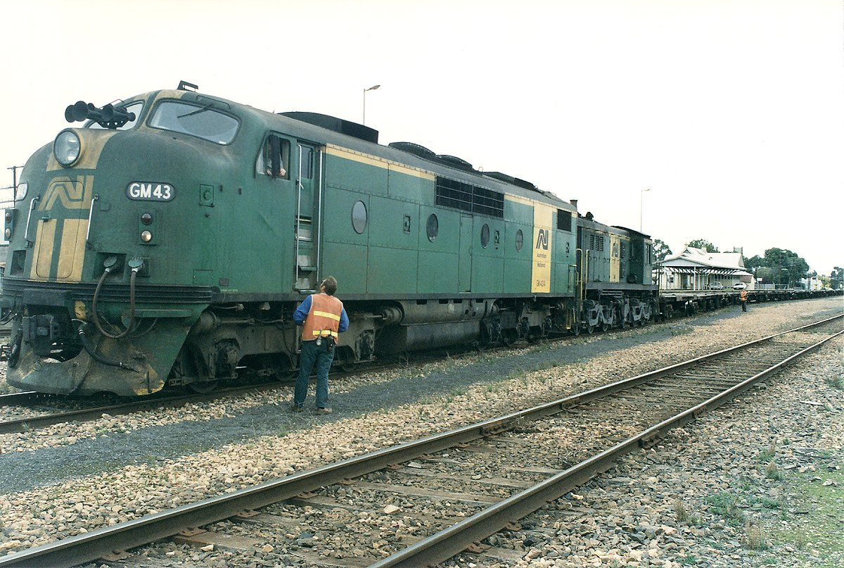 GM43 and 852 ready to haul the last train out of Mount Gambier's old yard to Keswick 12th April 1995. Mount Gambier station in background. Australian National Railways.